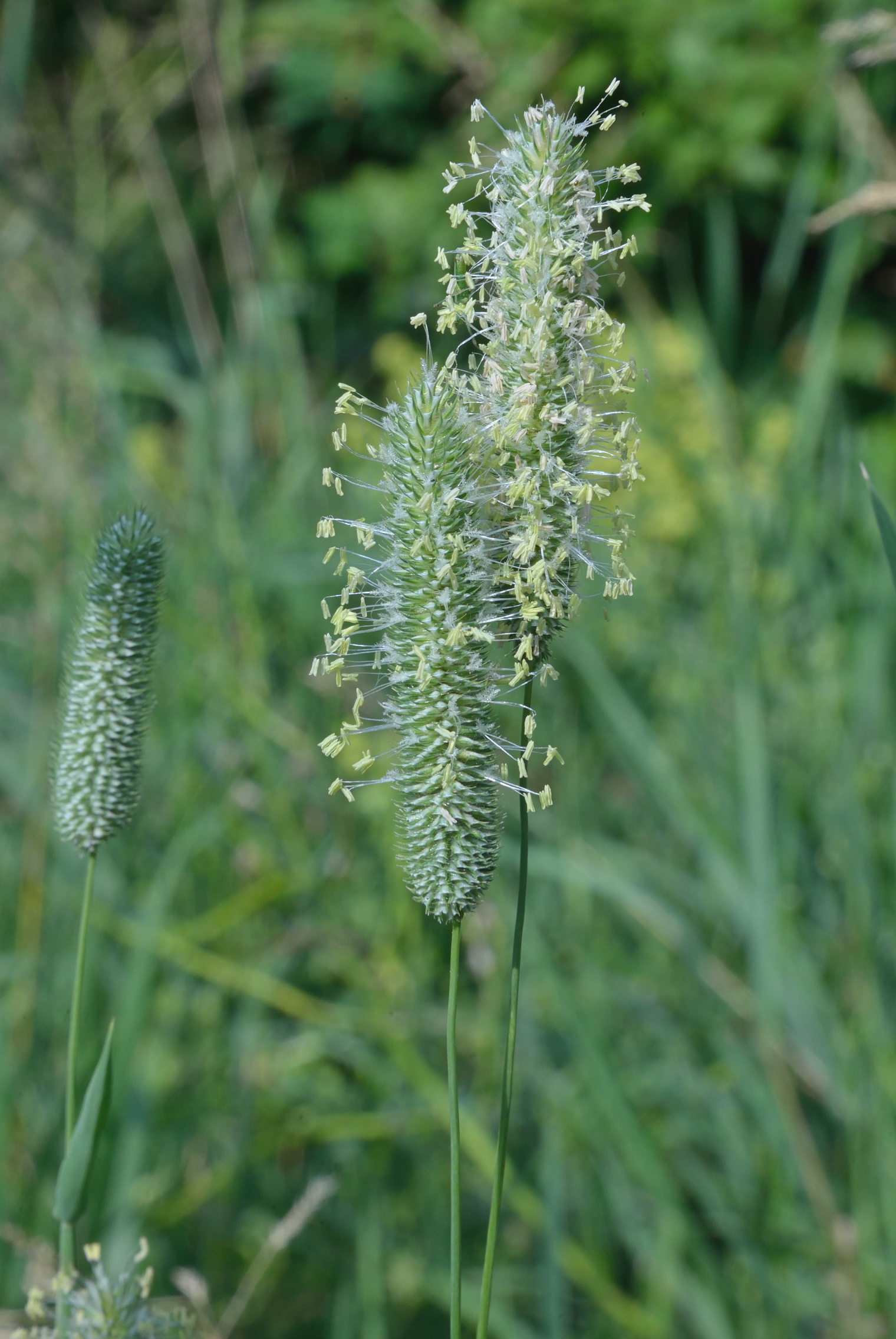 Phleum_pratense